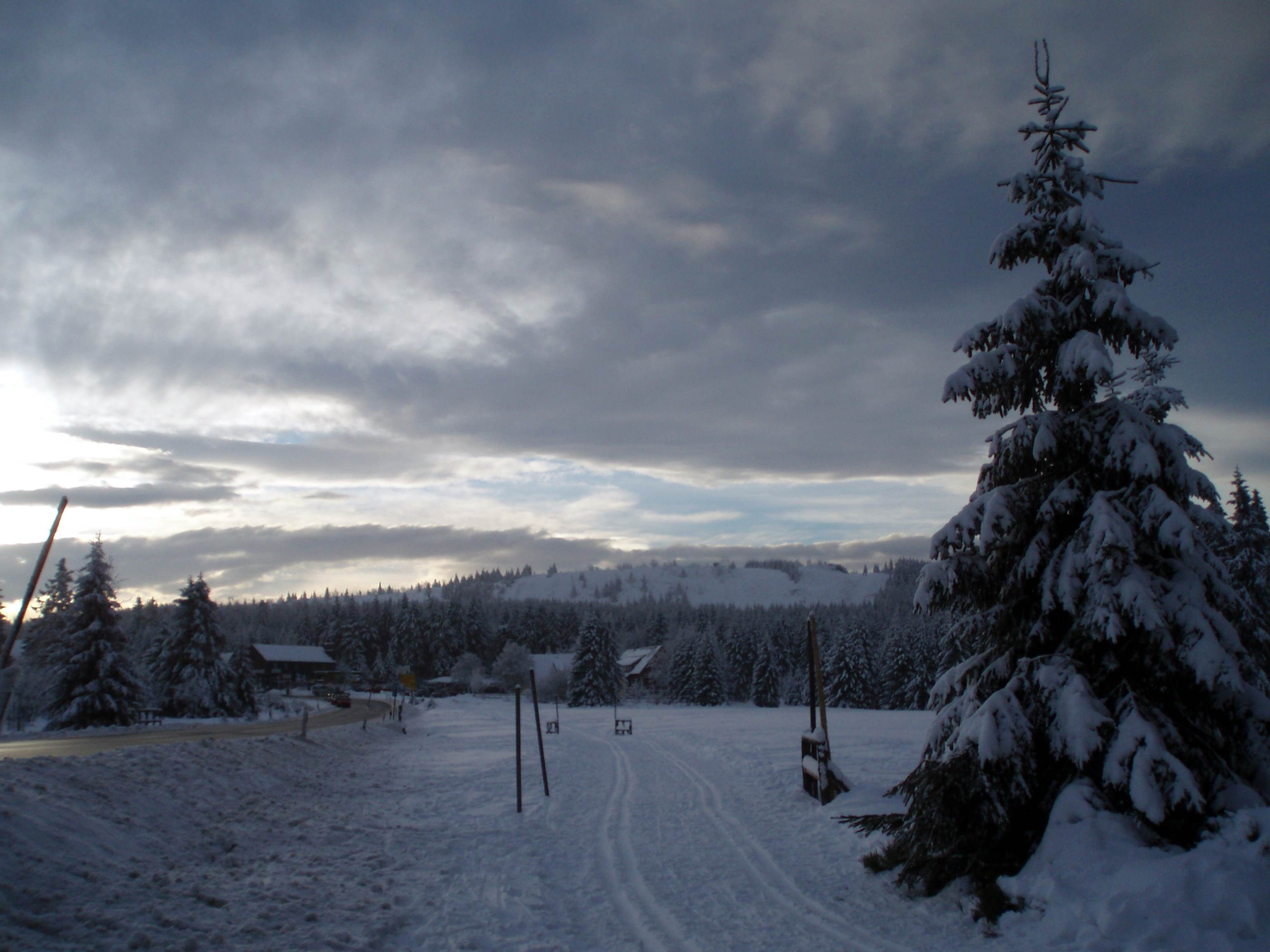 Cross-country skiing trail on the Sonnenberg in the Harz mountains, Germany